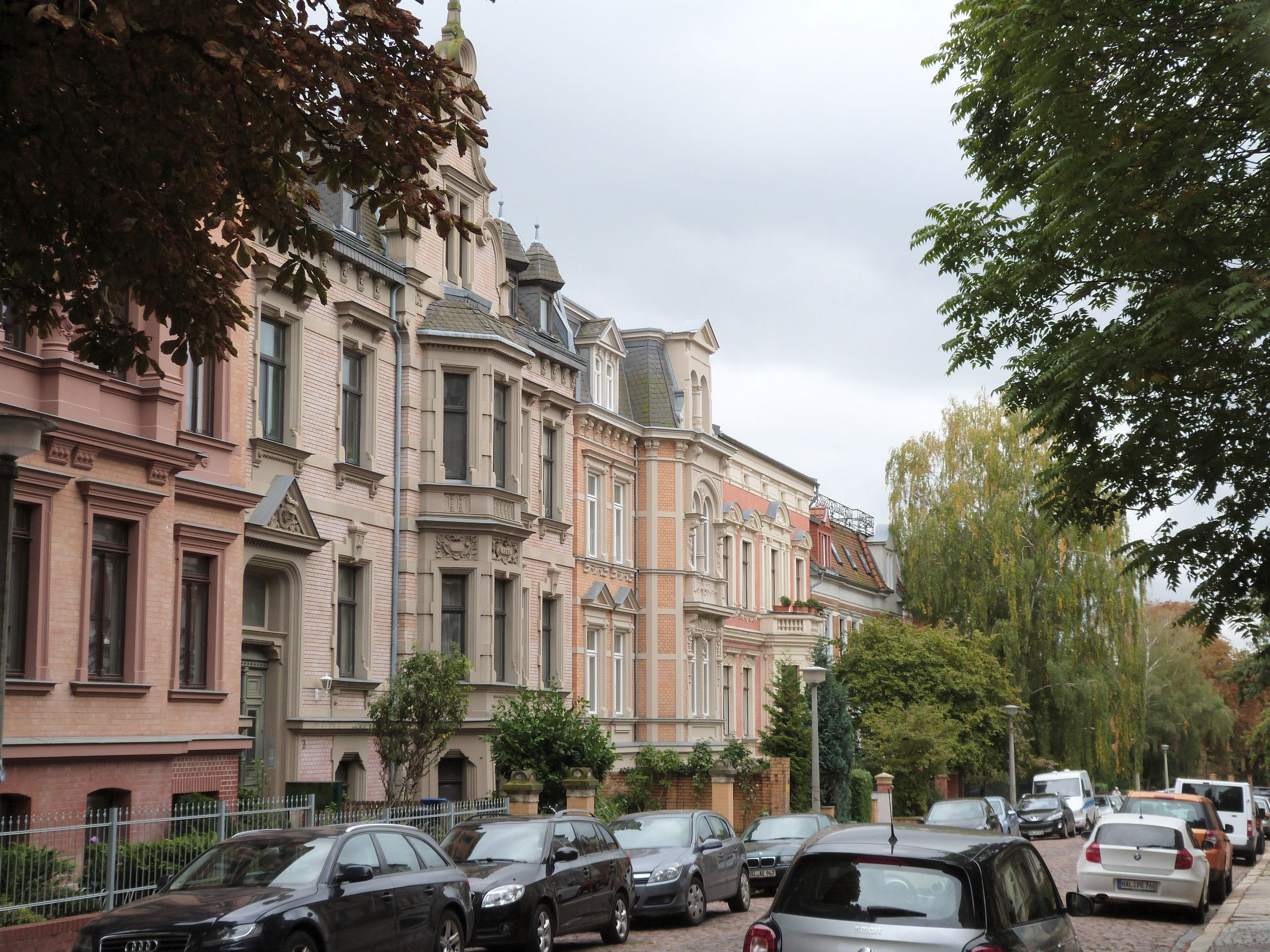 Lafontainestrasse in Halle (Saale), Saxony-Anhalt